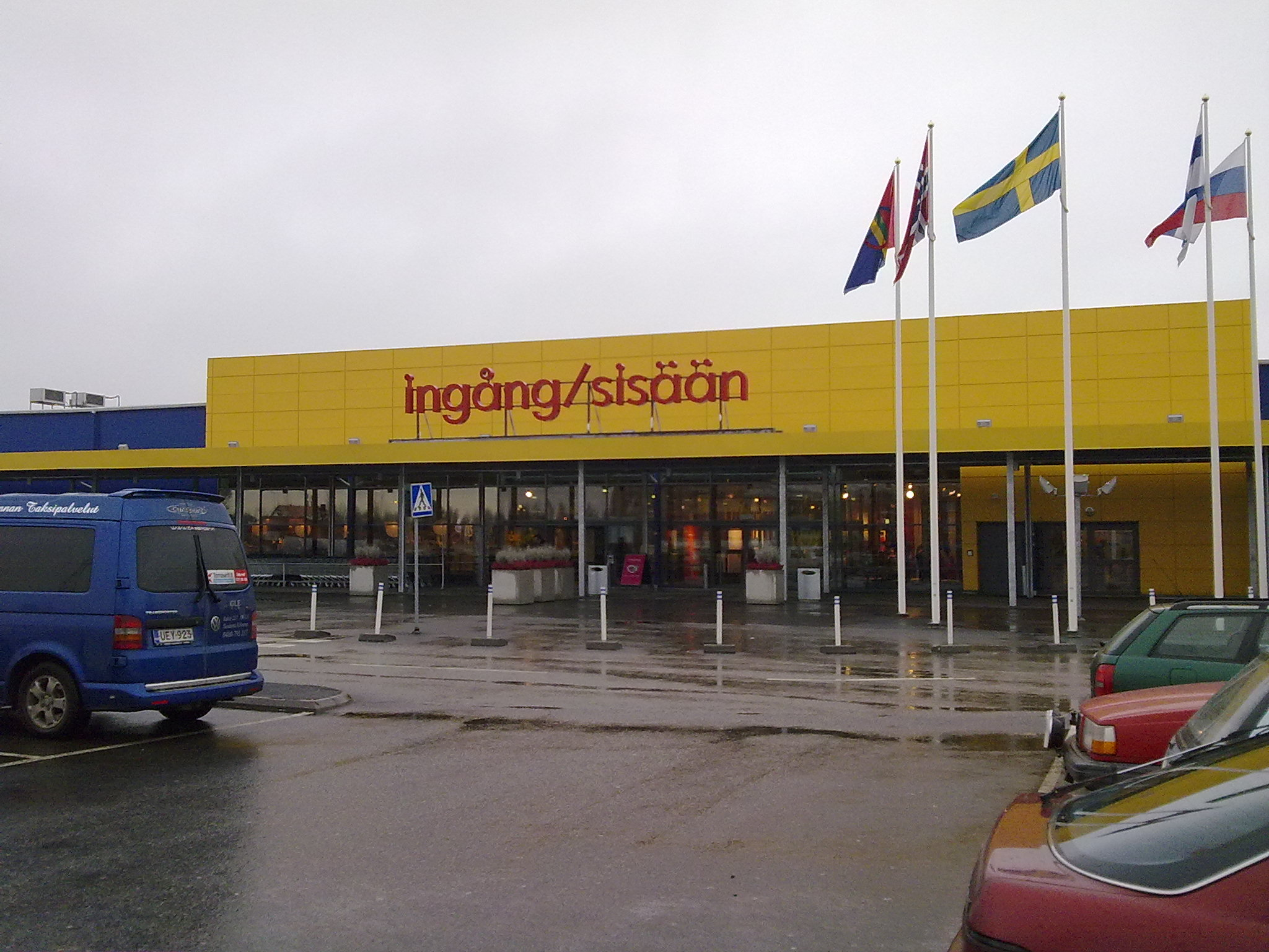 IKEA Haparanda Sweden. Near border to Finland